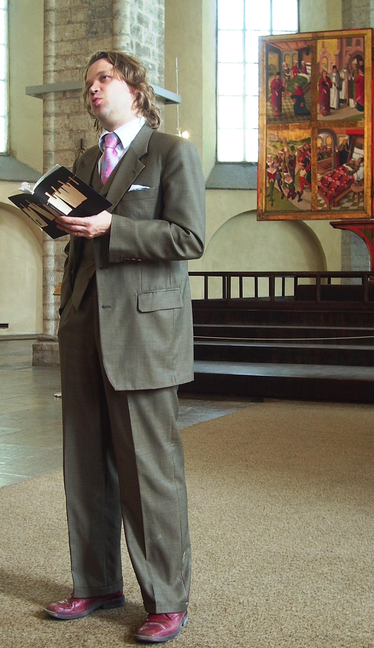 Joni Pyysalo (born 1974) is Finnish poet, critic and editor. Performing in Niguliste church during Tallinn Literature Festival.